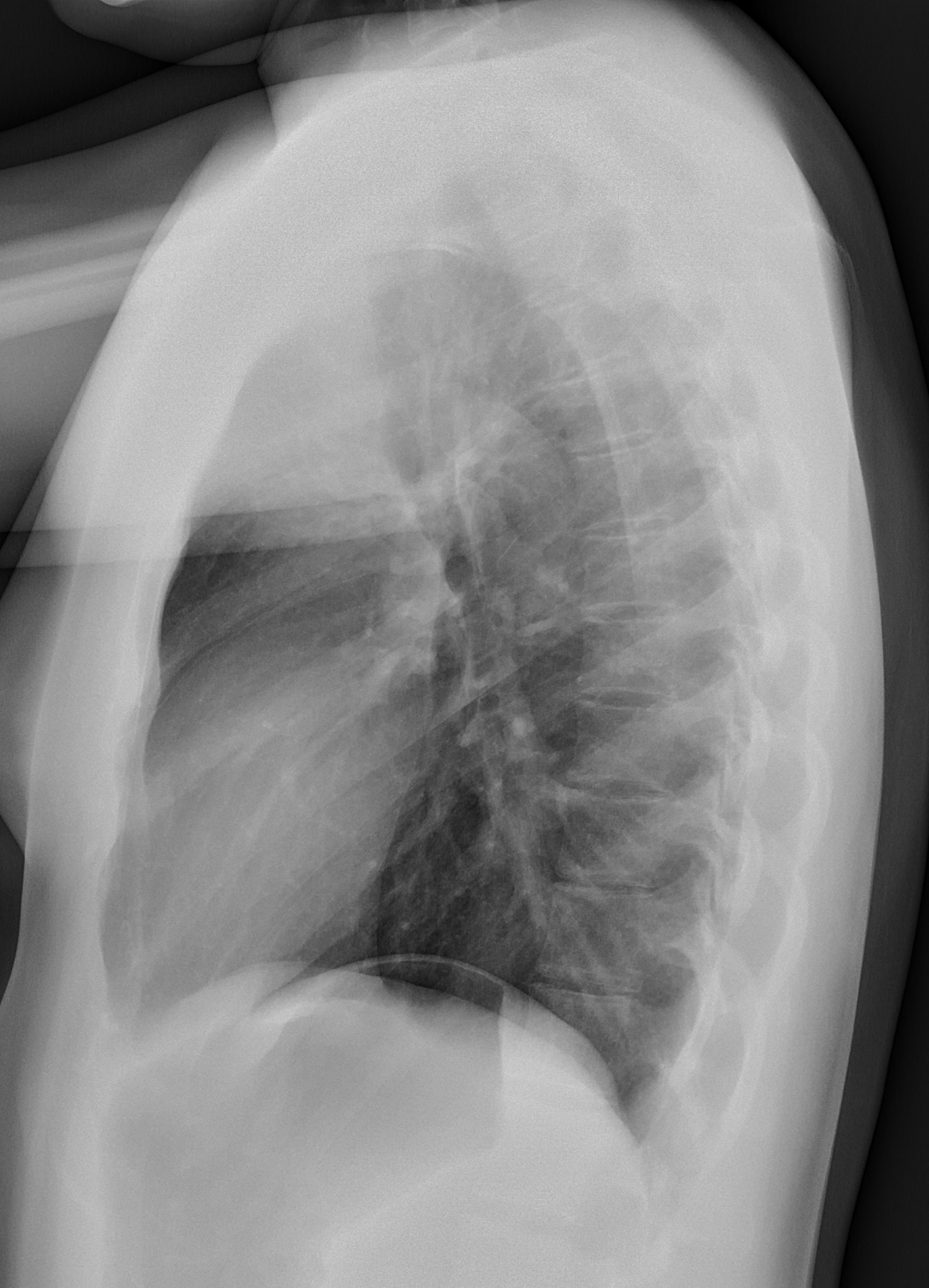 Lateral chest radiograph ("X-ray") taken of a 21 year old woman who presented with pain on the left side of her thorax after colliding with another player during a soccer game. It shows a normal chest without any signs of injury.